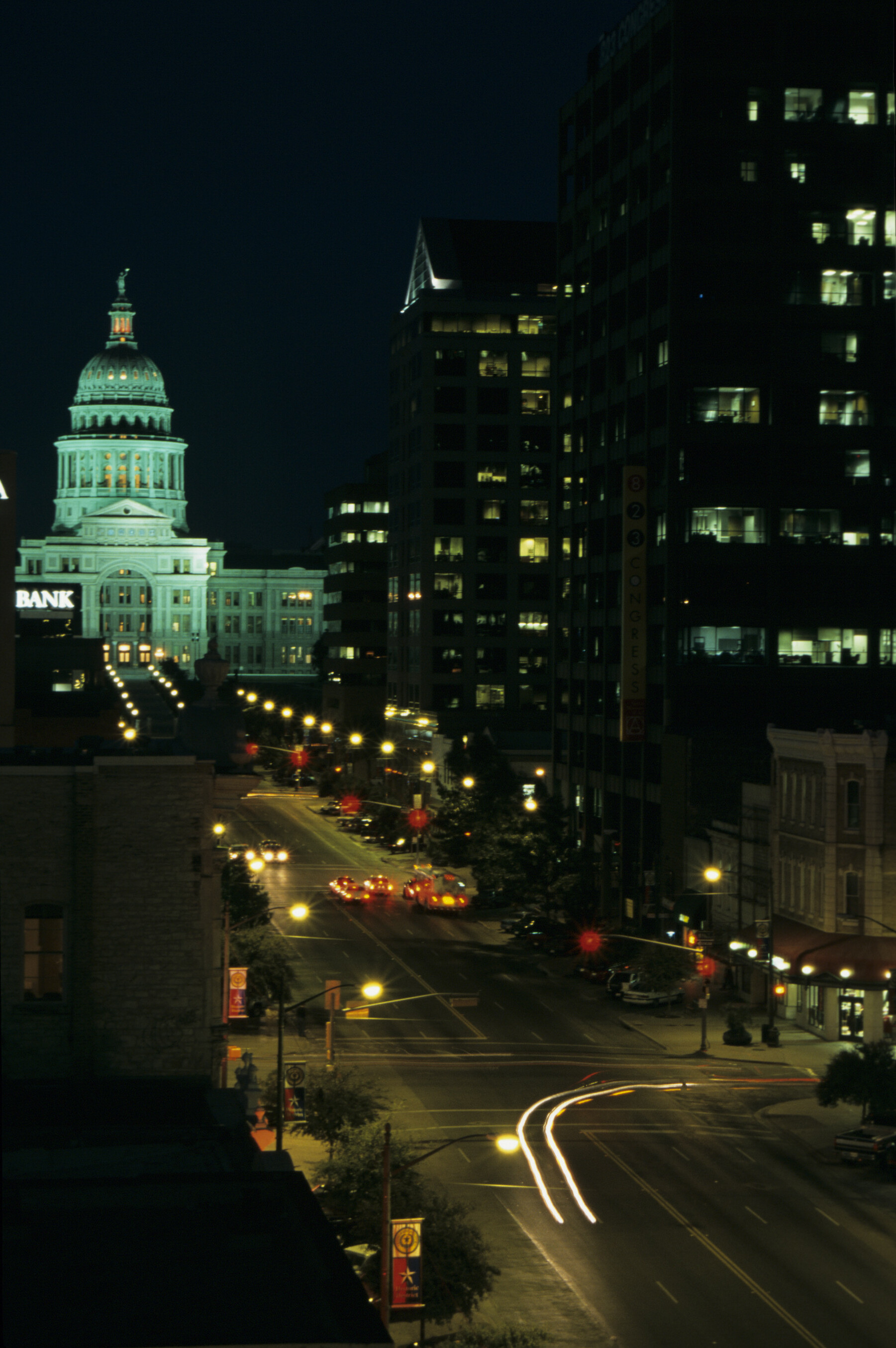 Texas State Capitol at night in Austin